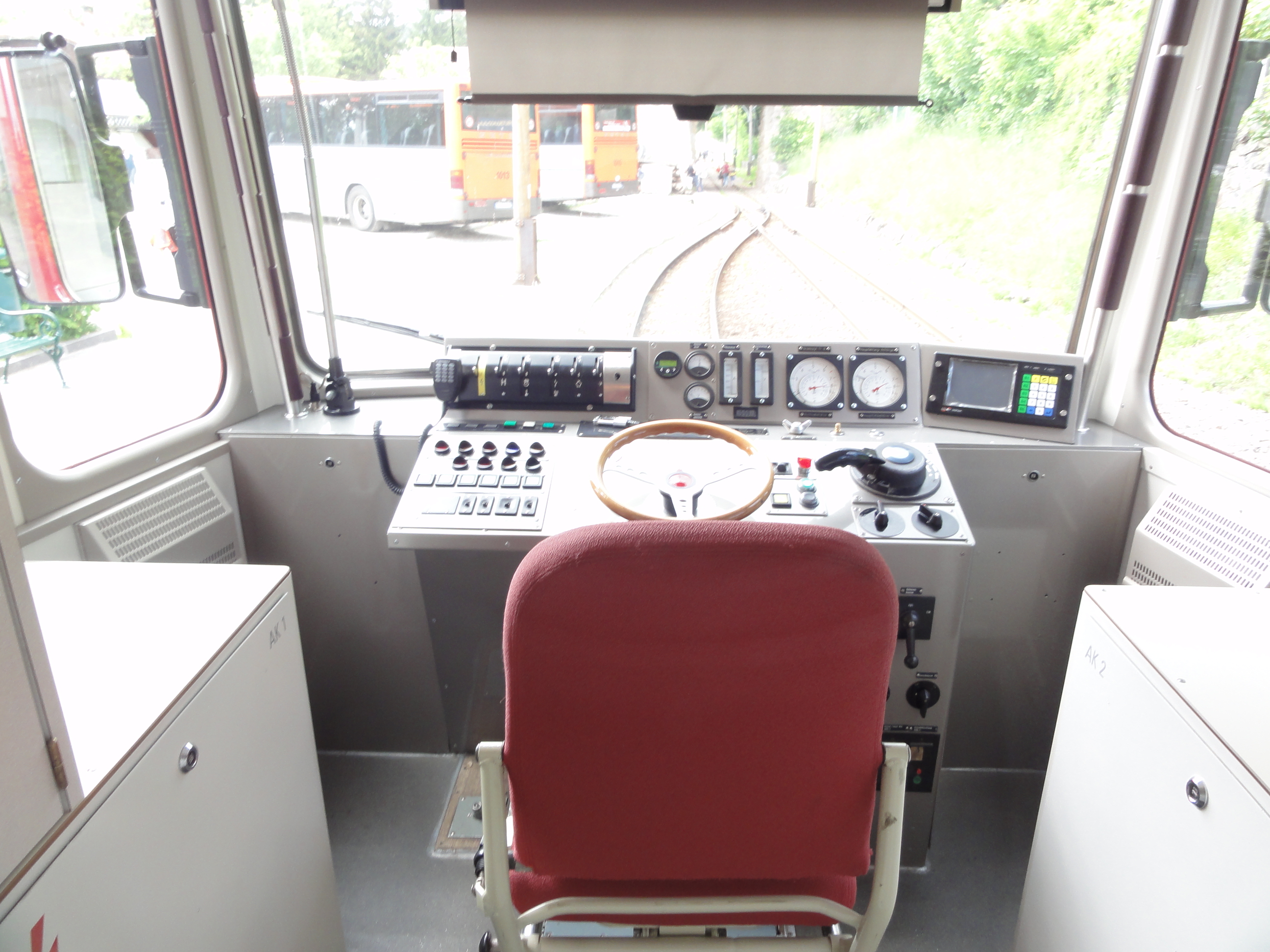 Italy — South Tyrol — Bozen-Bolzano